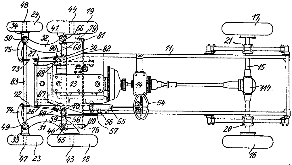 Flettner's patent drawing for a steering gear